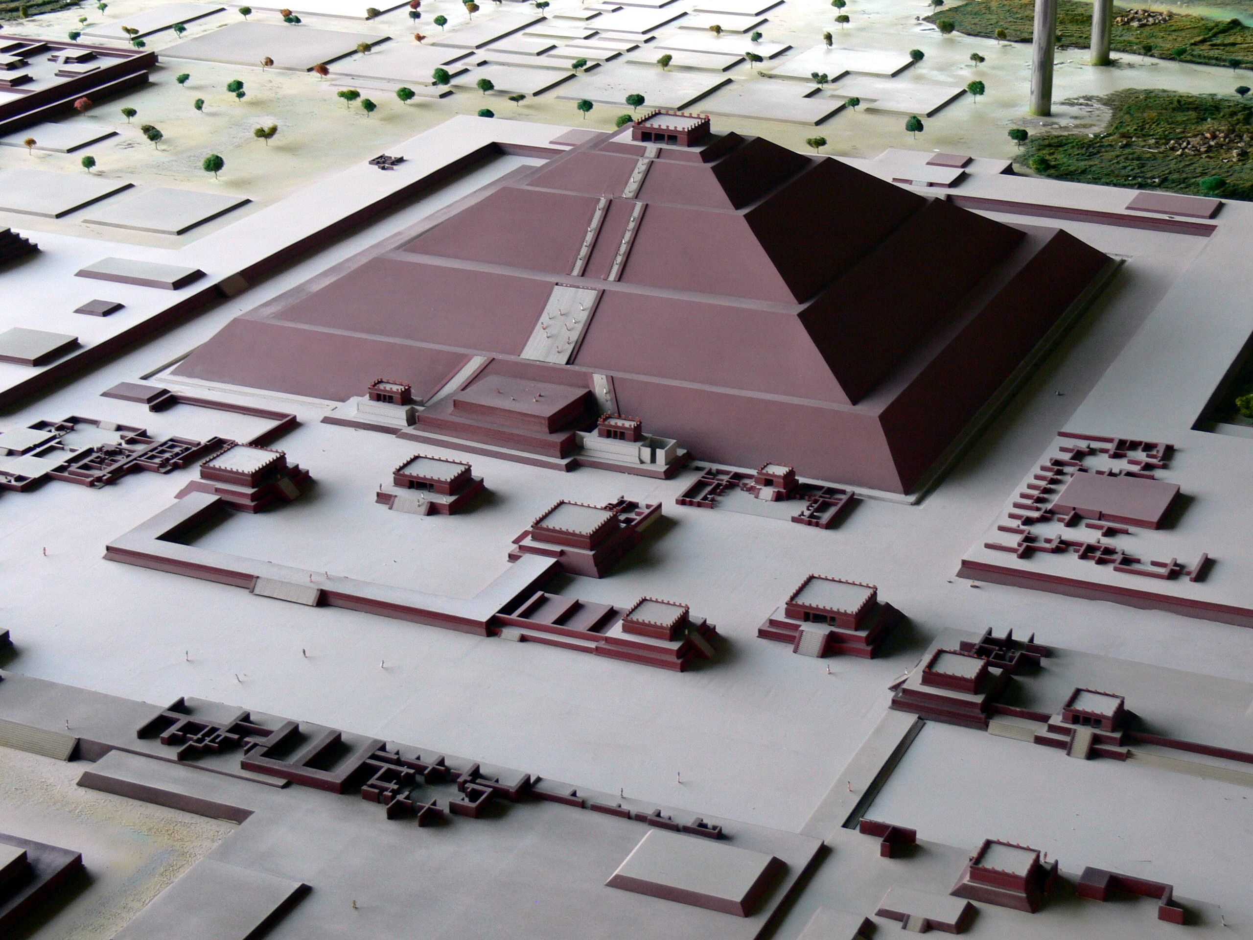 Museo del sitio, Teotihuacán. Reconstruction of the Pyramid of the Sun.